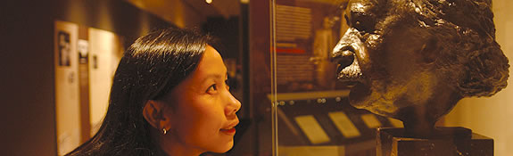 Museum